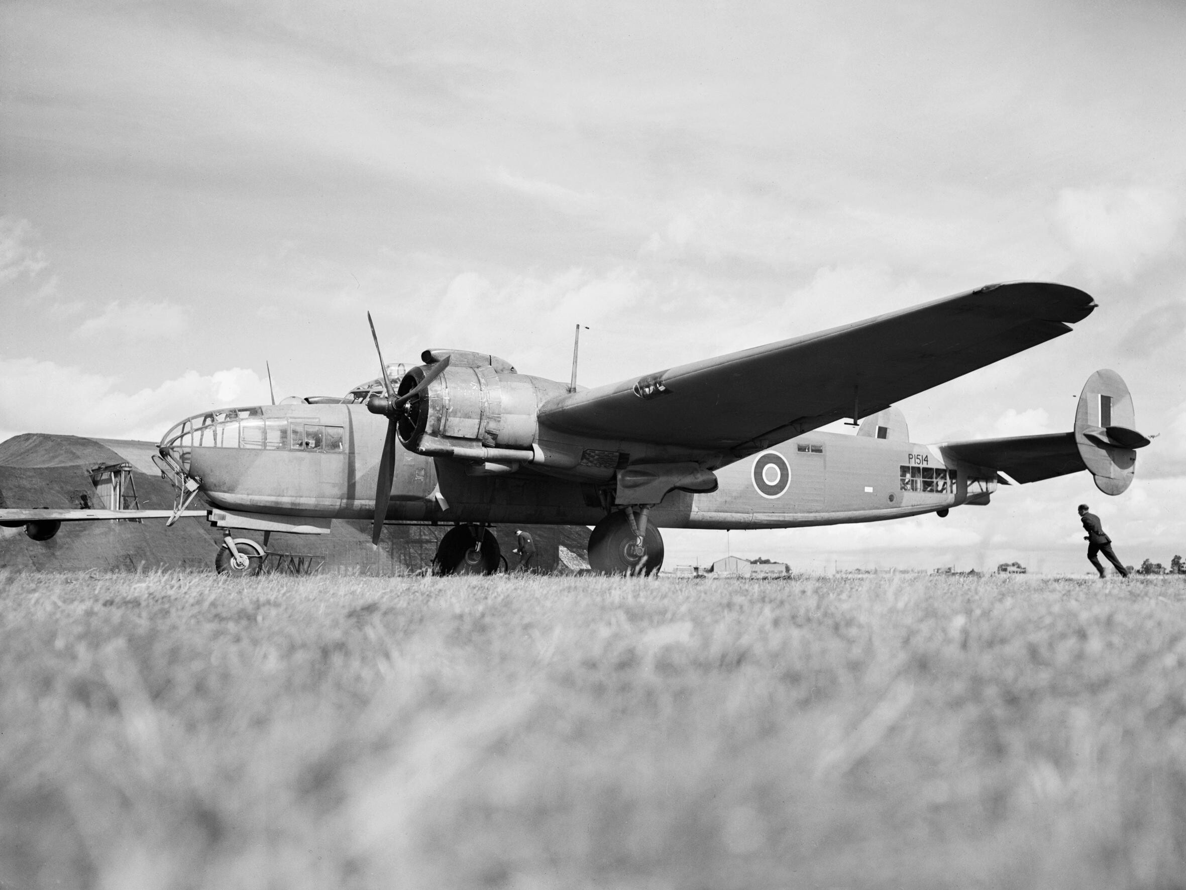 Royal Air Force Transport Command, 1943-1945. Albemarle ST Mark I series 2, P1514, of 'C' Flight, No. 511 Squadron RAF, parked at Lyneham, Wiltshire. One of six Mark I aircraft modified to ‘Lyneham Standard’ transport configuration and used by the Squadron on the UK-Gibraltar-Algiers route.